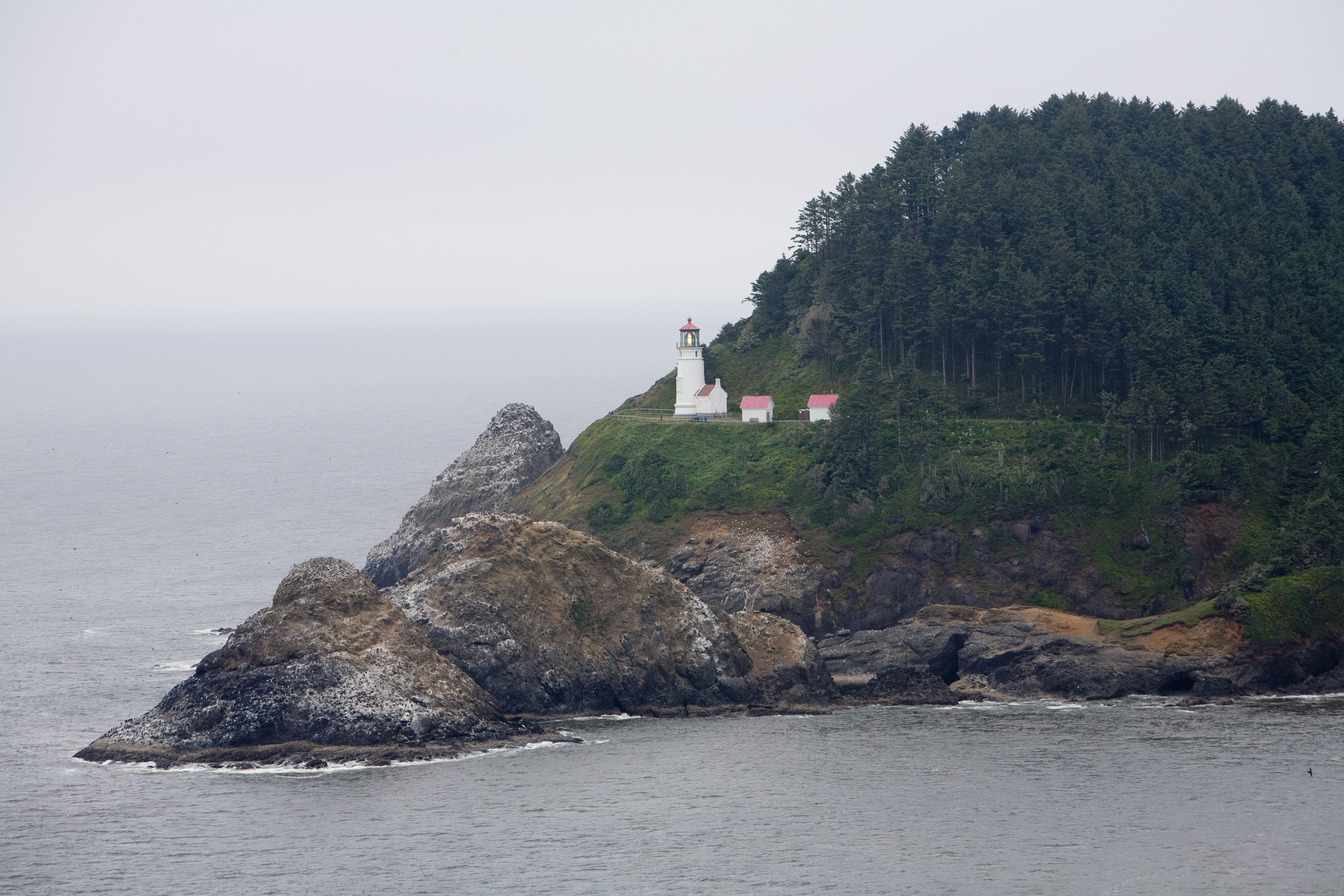 Heceta Head Lighthouse in Lane County, Oregon.